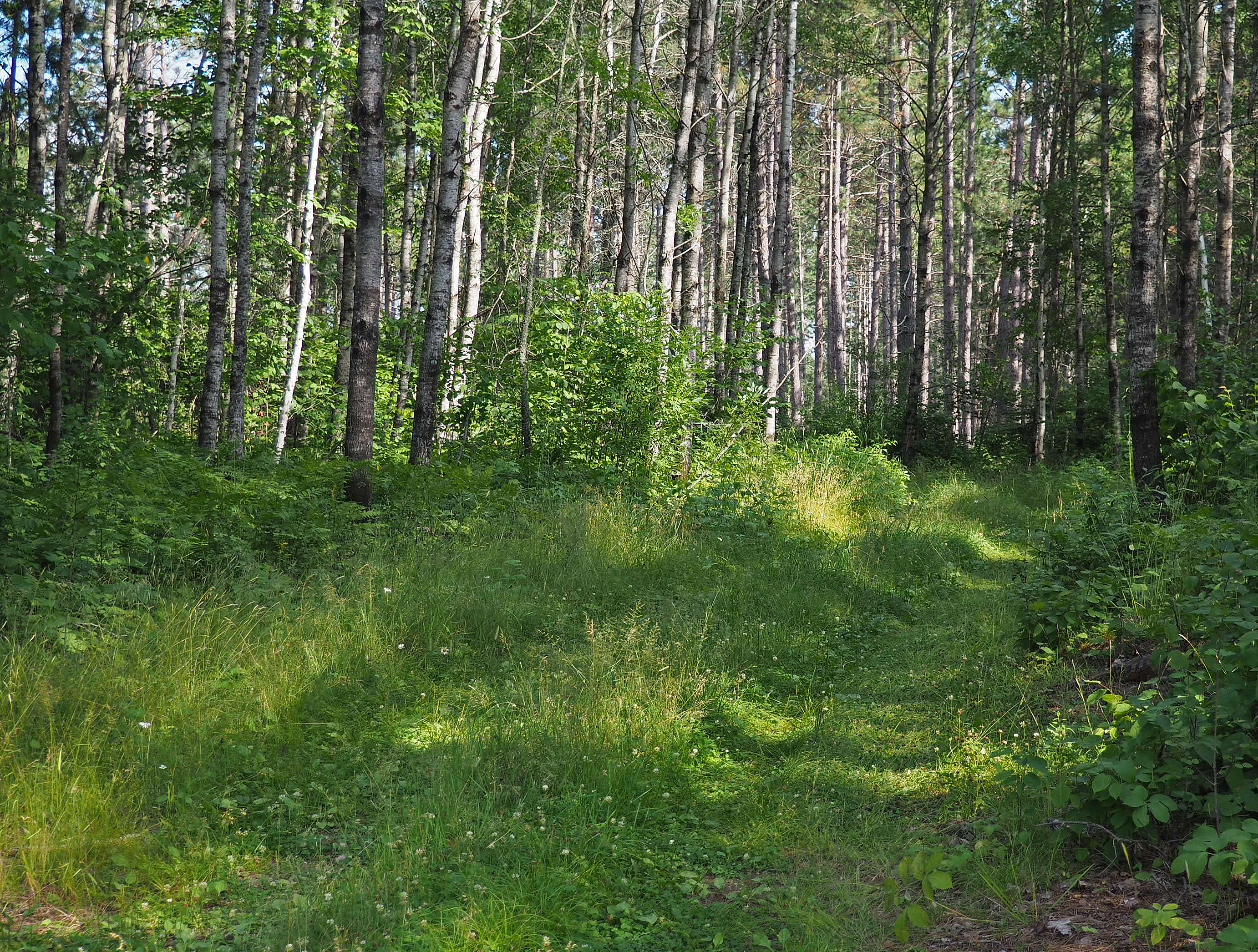 Height of Land Portage, roughly parallel to Giants Ridge Rd, White Township, Minnesota, USA.